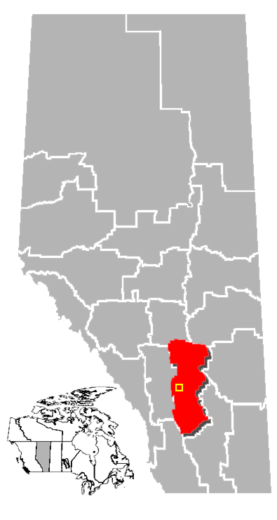 Location of Strathmore, Census Division No. 5, Albera